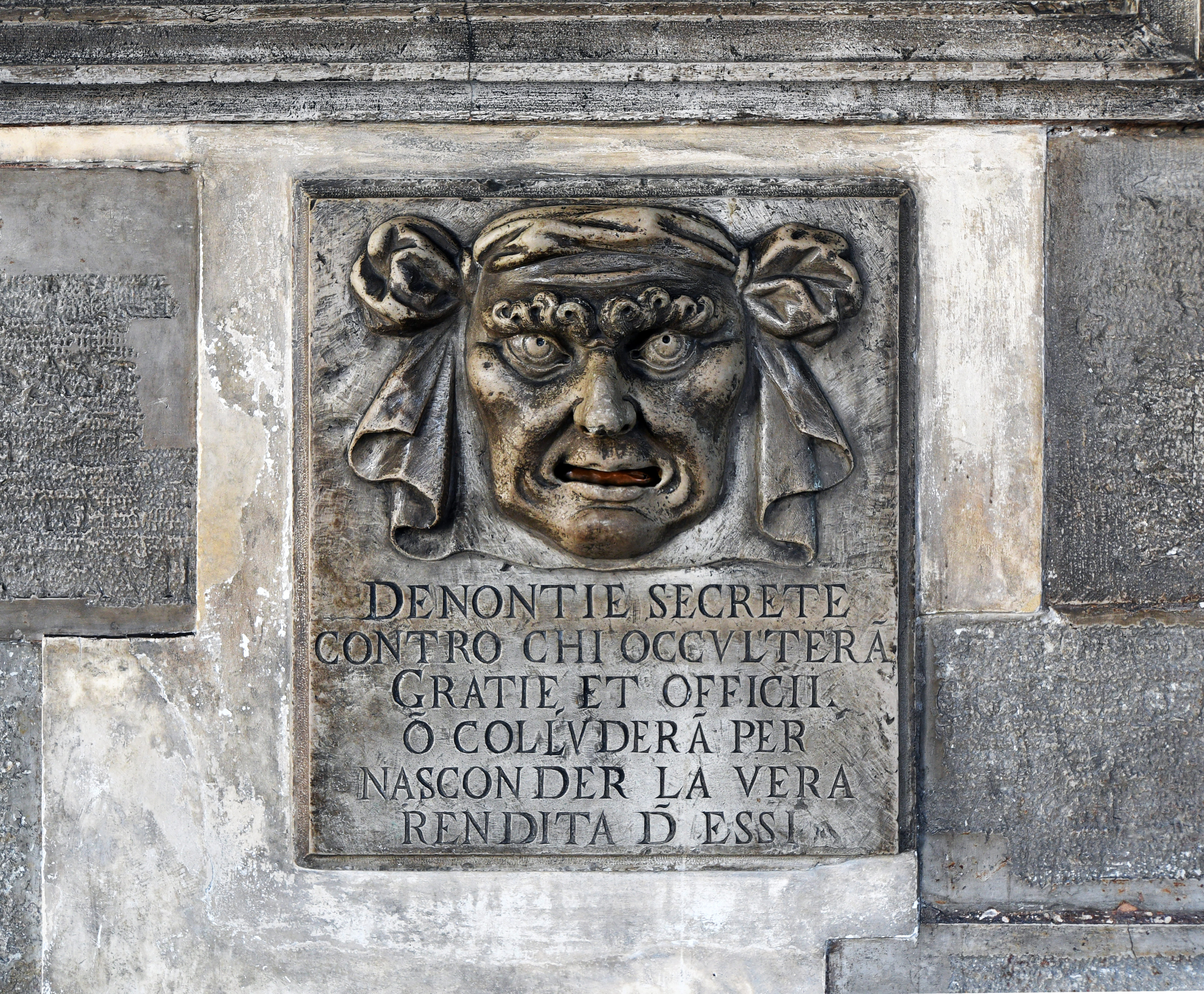 Bocca di Leone in the Doge's Palace (Venice)